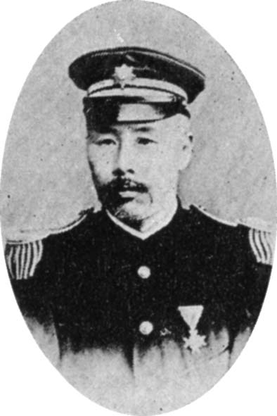 Mr. Keiichi Tanaka.